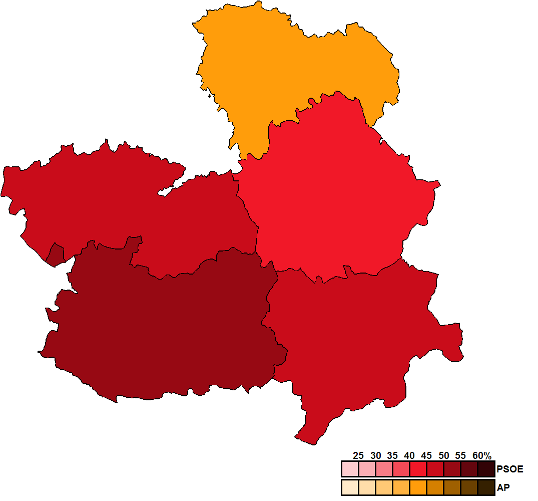 Provincial results for the 1987 Castilian-Manchegan regional election.